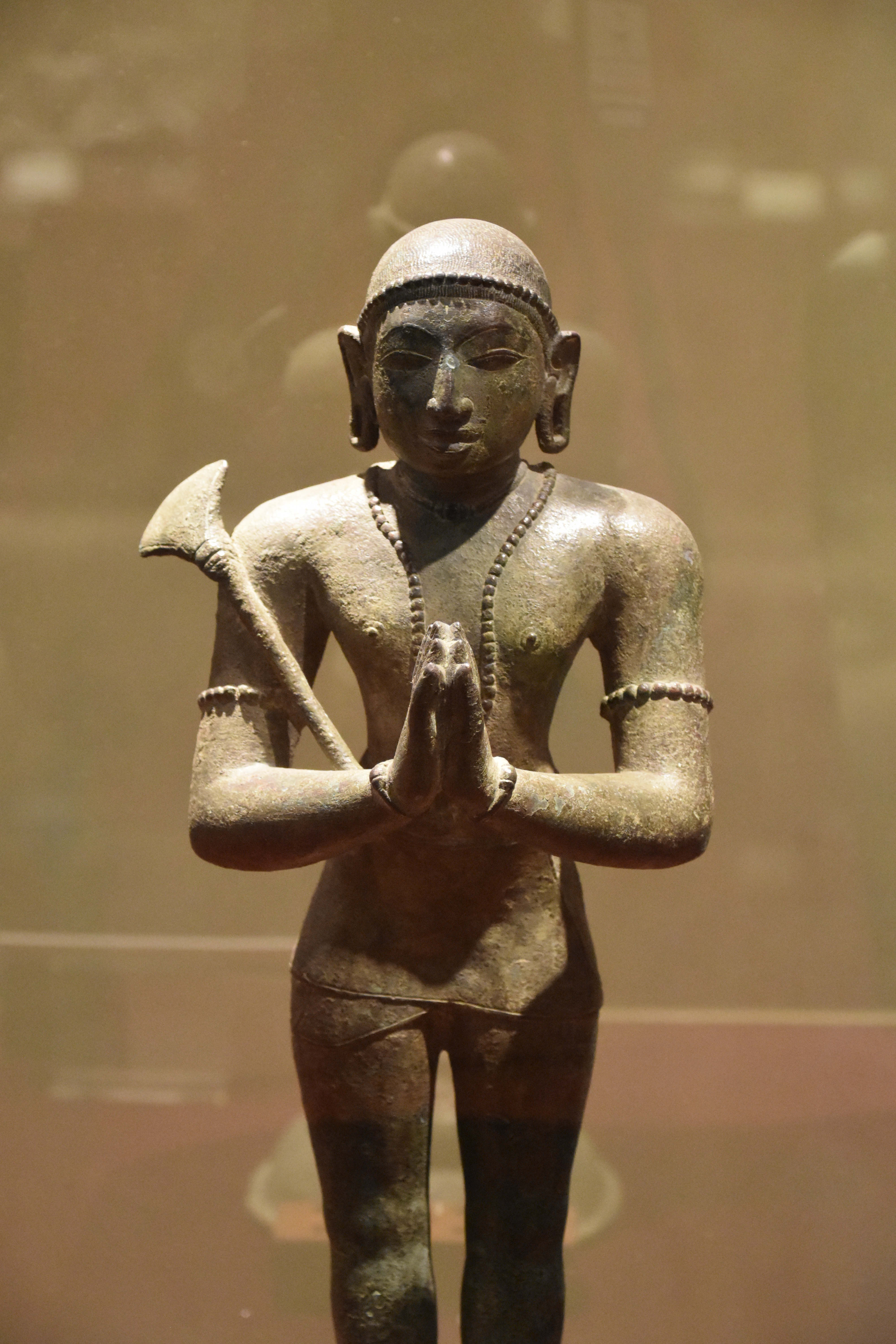 Appar, Chola period bronze, 12th century, Government Museum, Chennai (2)